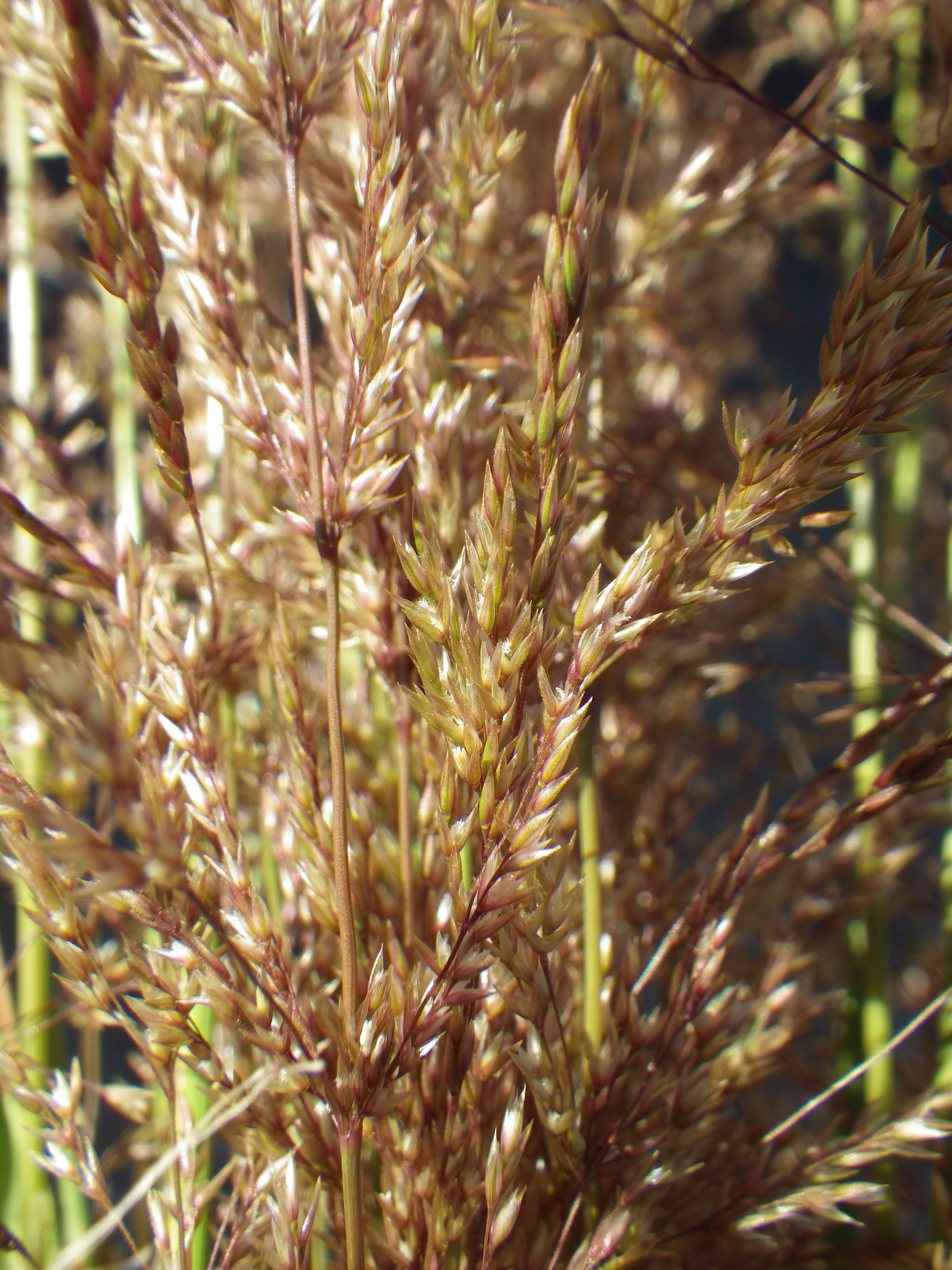 This introduced grass was growing with a bunched habit in an area that may have been vegetatively restored and there mainly at the bottom of shale barrens where perhaps water runoff was collected. The spikelets have well developed paleas and are borne generally along the length of the inflorescence branch. The ligules are about 4-5 mm long, generally longer than wide.